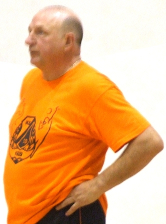 Roman Murdza - polish volleyball coach